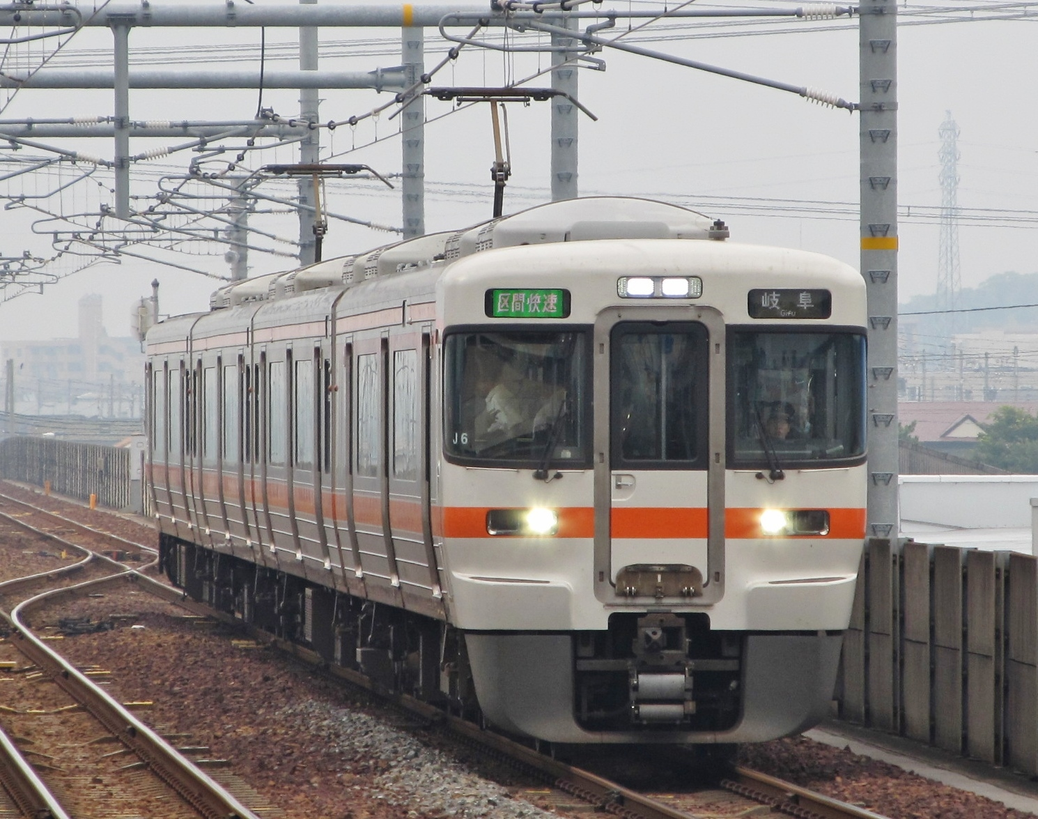 JR-C 313-1100 series (J6). Semi Rapid Service bound for Gifu.